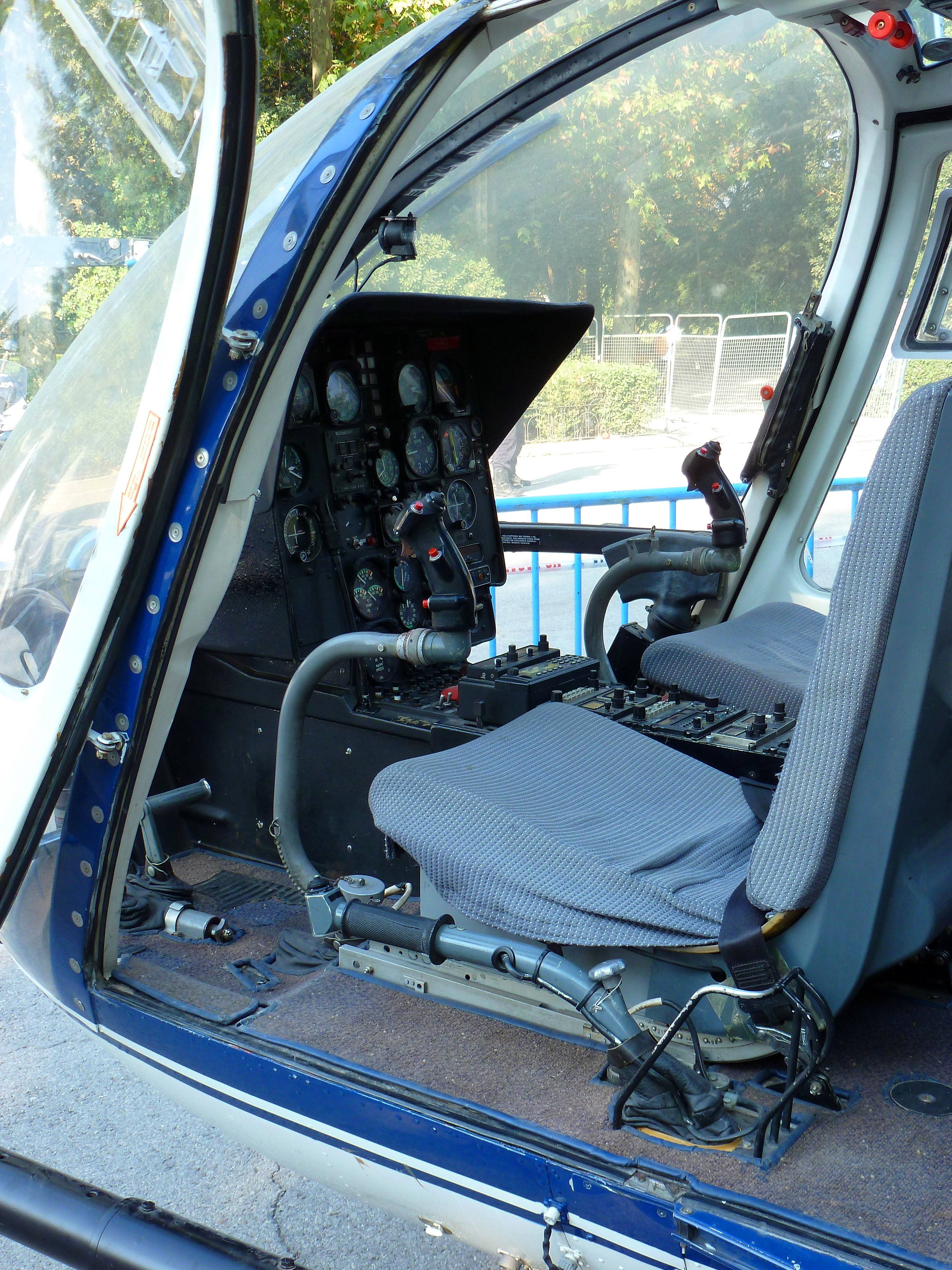 Cockpit of a Bö-105CB of the Spanish National Police.